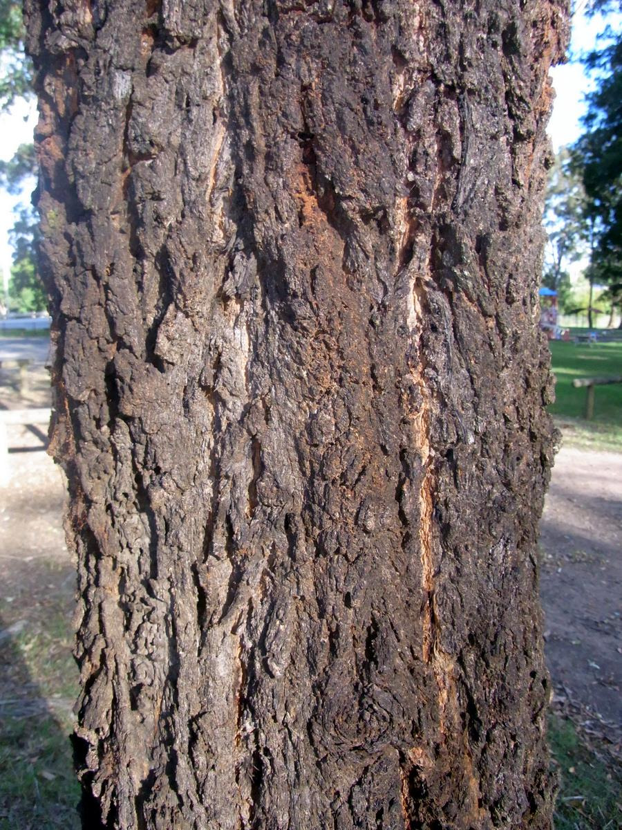 Ironbark tree south of Kempsey NSW, Australia. Probably Eucalyptus placita